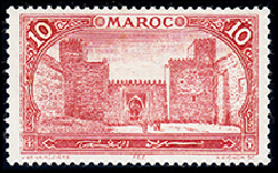 French Morocco 0059. The issuing authority no longer exists.